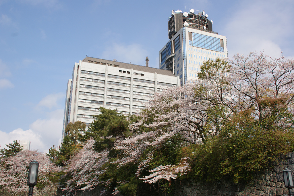 The East Building (left) and the Annex Building (right), Shizuoka Prefectural Government Office Shizuoka City, Shizuoka Prefecture